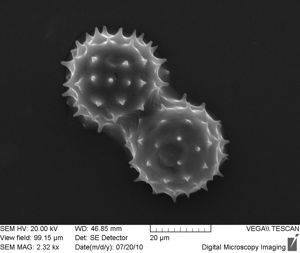 pollen of Tithonia rotundifolia